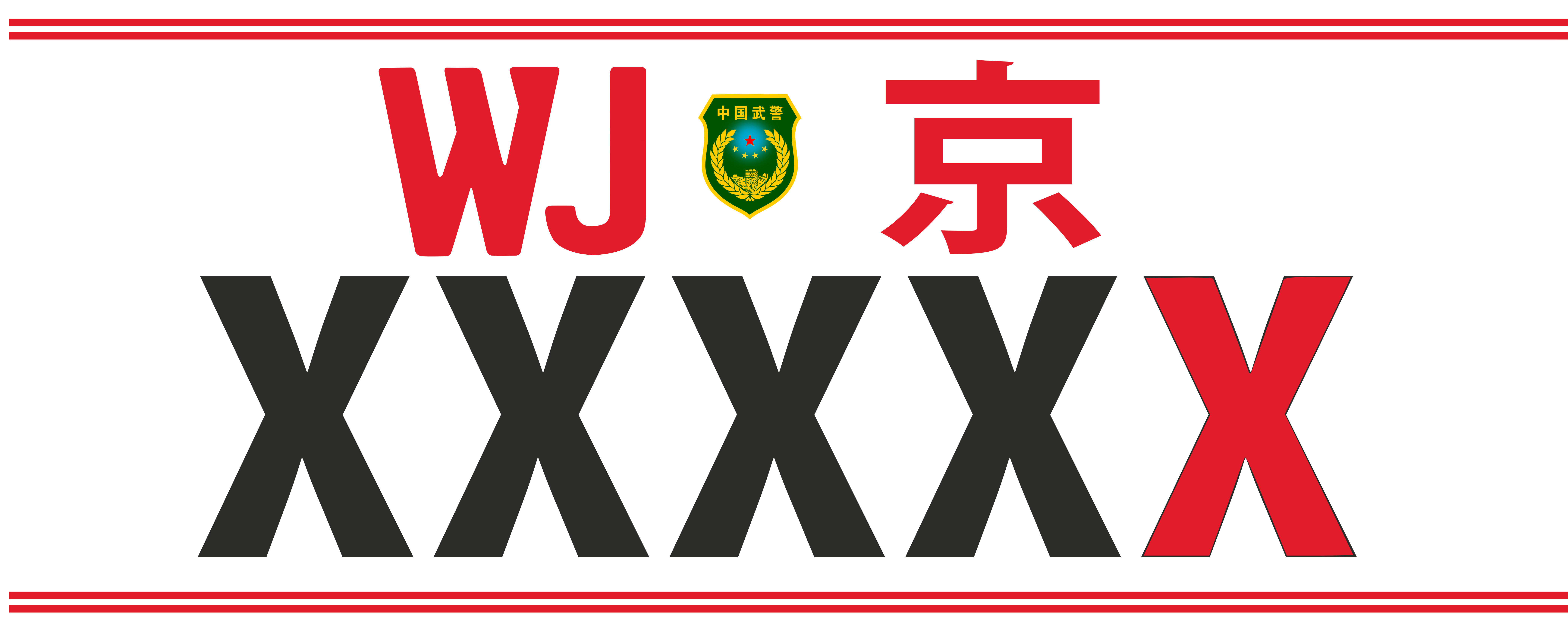 CAPF 2012 type vehicle plate simple sample figure